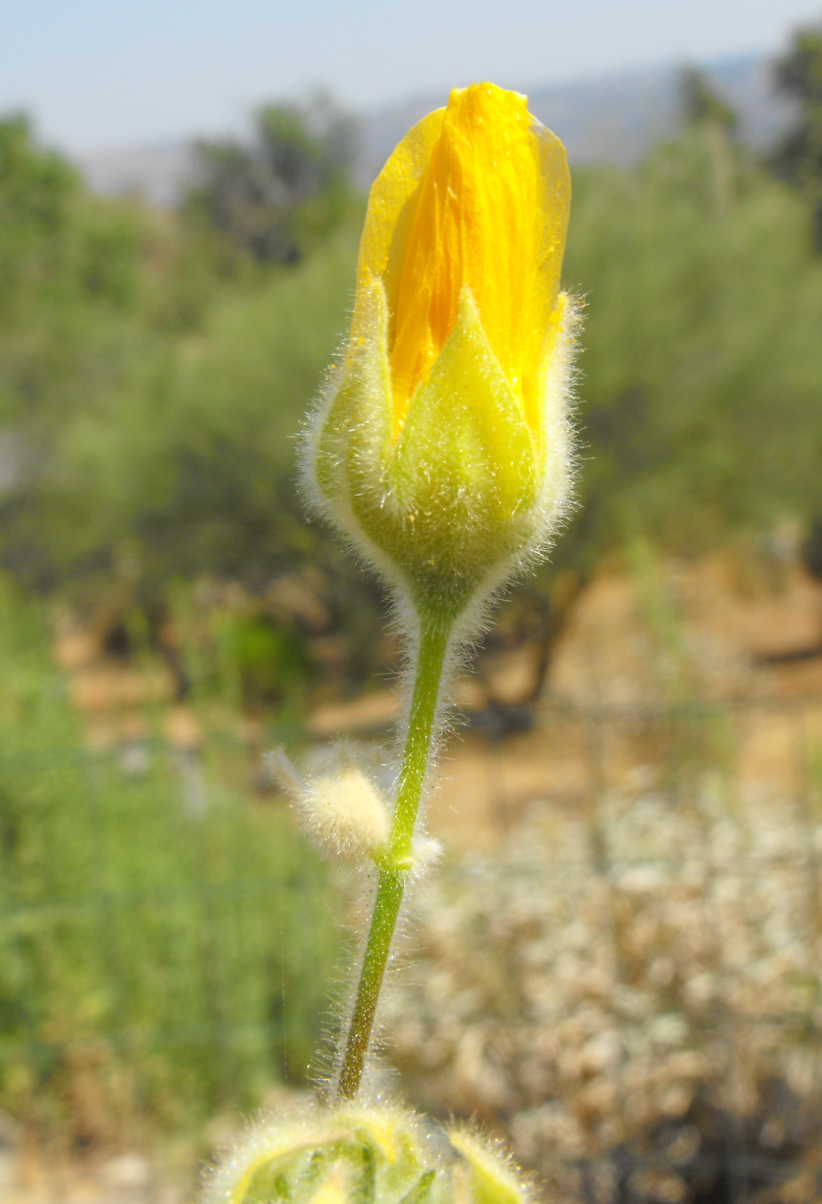 Abutilon palmeri — Indian mallow. At the San Diego Zoo Safari Park (San Diego Wild Animal Park), Escondido, California.